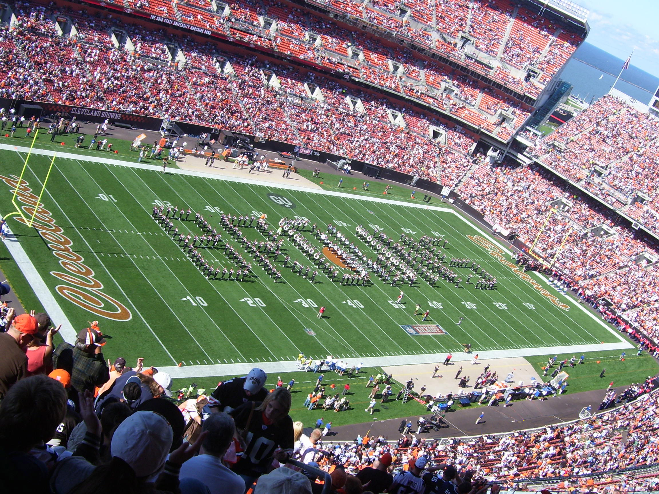 An image of the 2008 Ohio State marching band spelling out "Browns" before the Browns 2008 season opener.